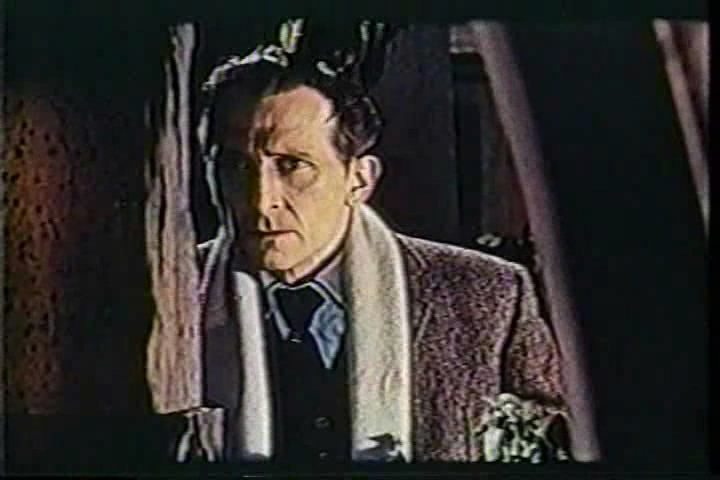 Screenshot of Peter Cushing from the trailer for the film The Brides Of Dracula